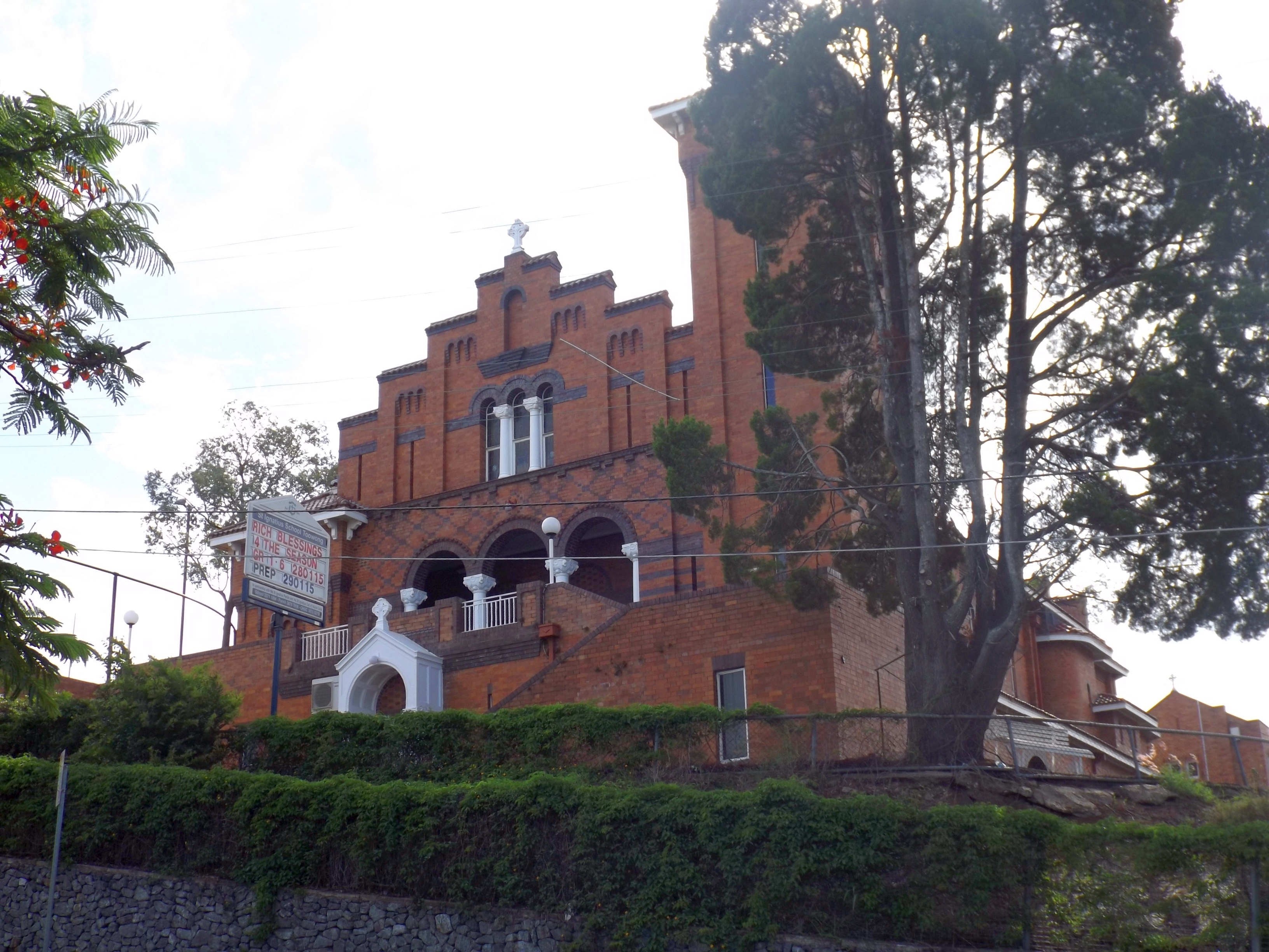 Photo of Church of Saint Ignatius Loyola from Grove Street in Toowong, Brisbane, Queensland, Australia.